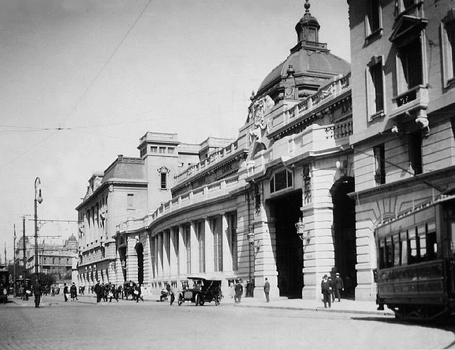 Retiro railway station - Coach entrance - Historical photos - c1915